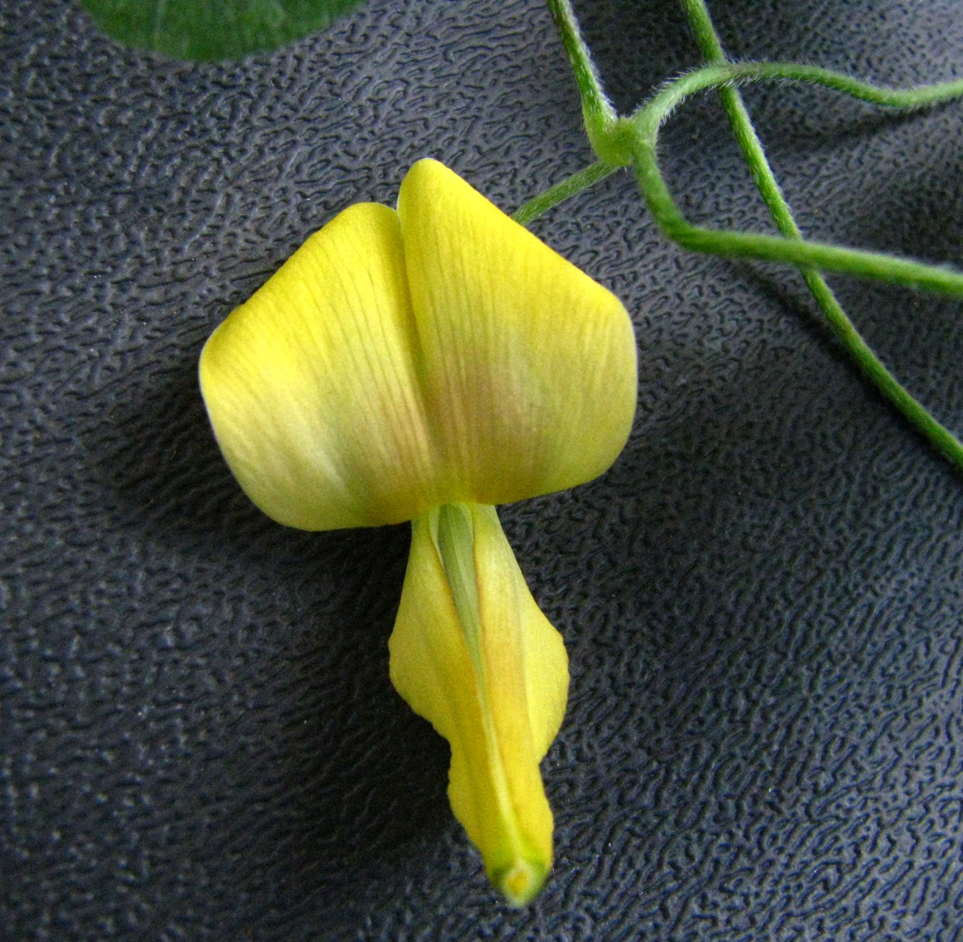 Oahu cowpea or Oahu vigna (no known Hawaiian name) Fabaceae Endangered Oʻahu (Cultivated)